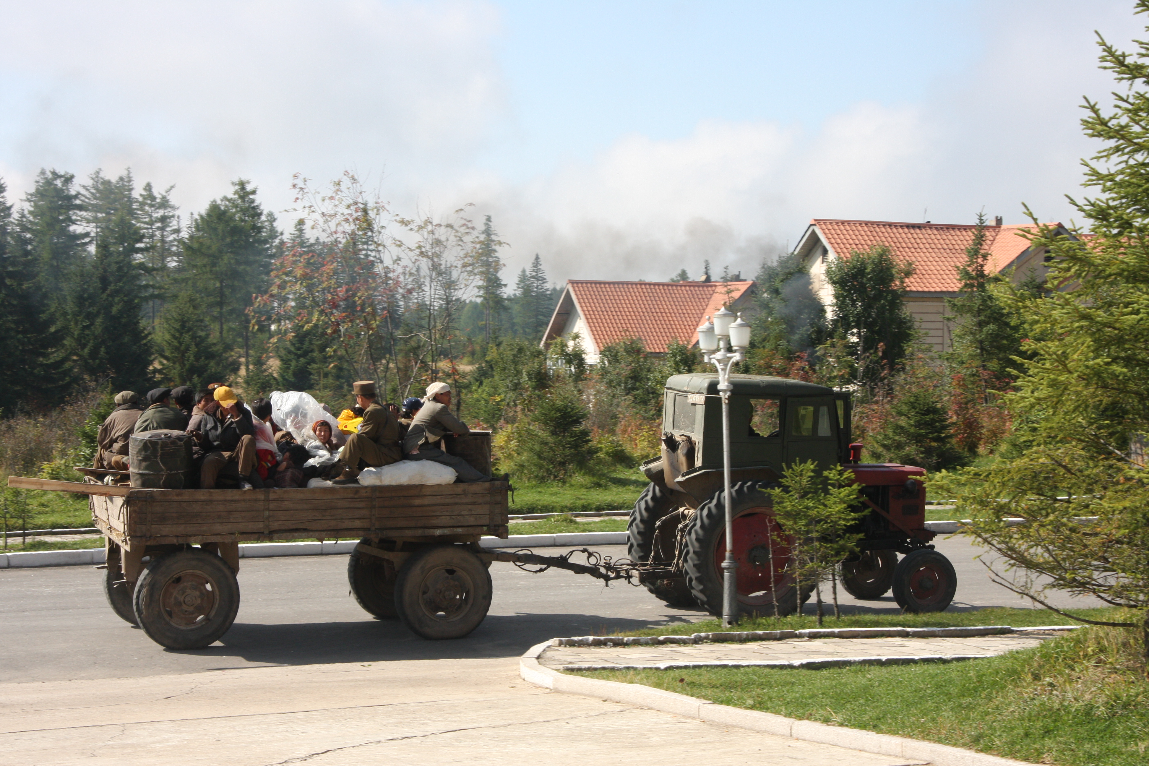 People are sitting on a trailer that is towed by a tractor on a street of Samjiyon, North Korea.